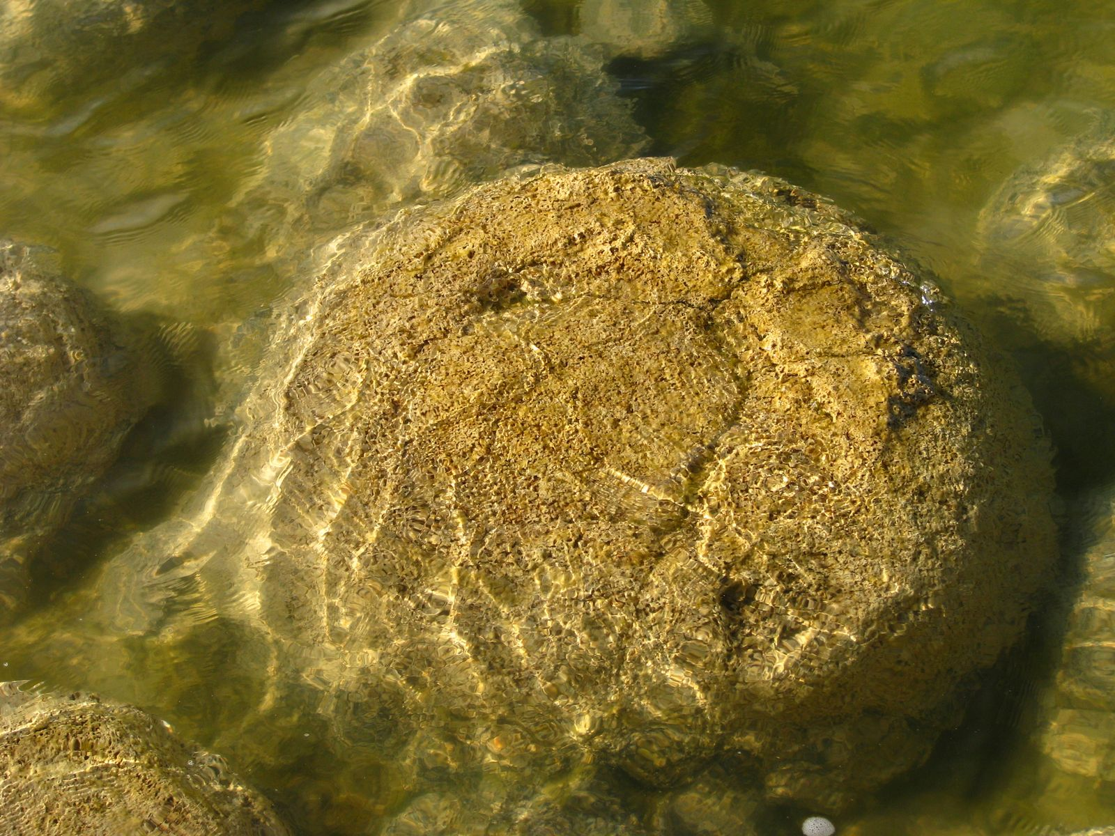 Stromatolites growing her in Yalgorup national park in Australia (there are also other stromatolithes in Shark Bay and in Western Australia. Stromatolites are "attached, lithified "sedimentary" growth structures, accretionary away from a point or limited surface of initiation."